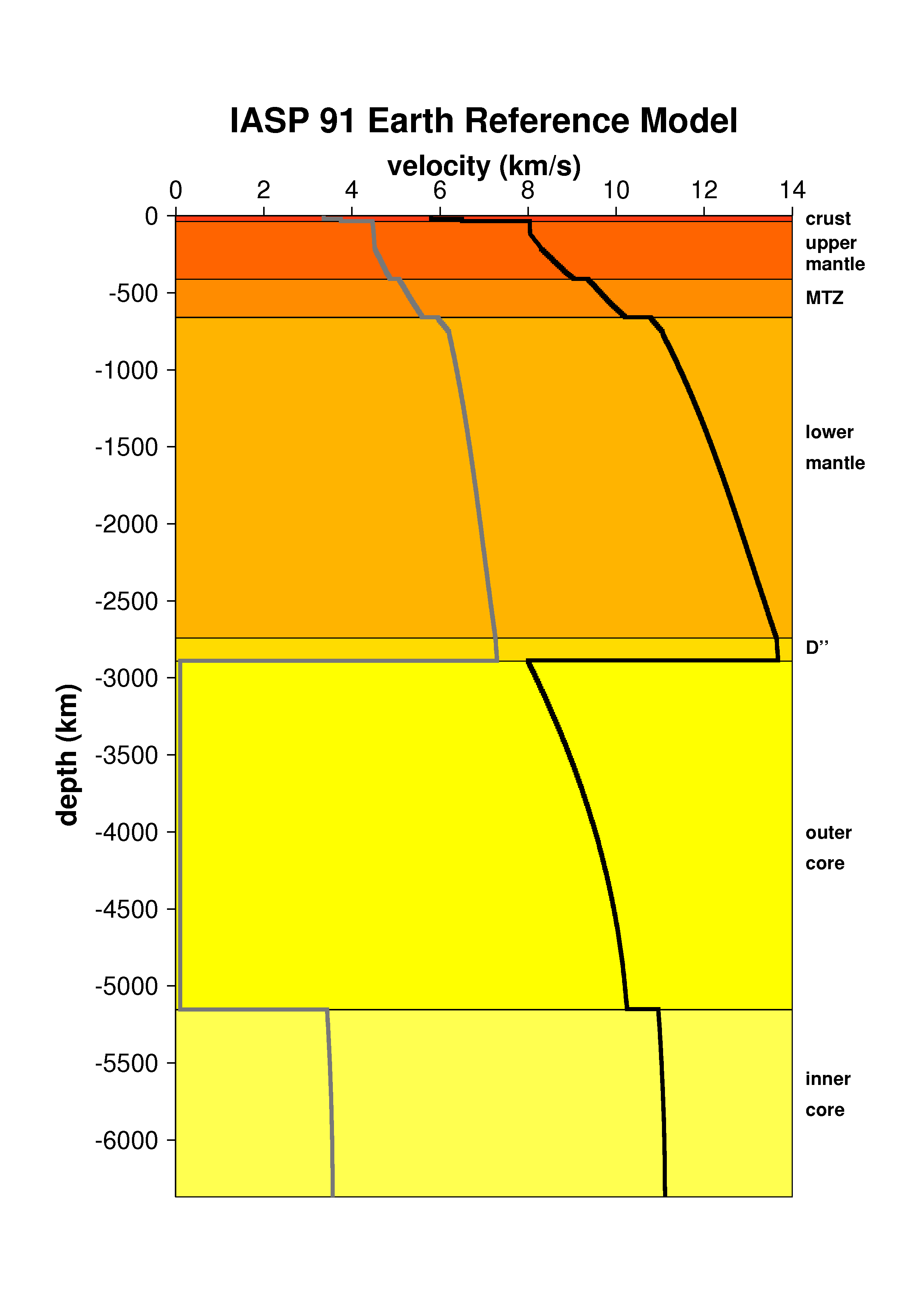 The IASP91 Earth Reference Model (B. Kennett & E. Engdahl, 1991) giving S and P wave velocities (grey and black lines, resp.) in the earth's interior